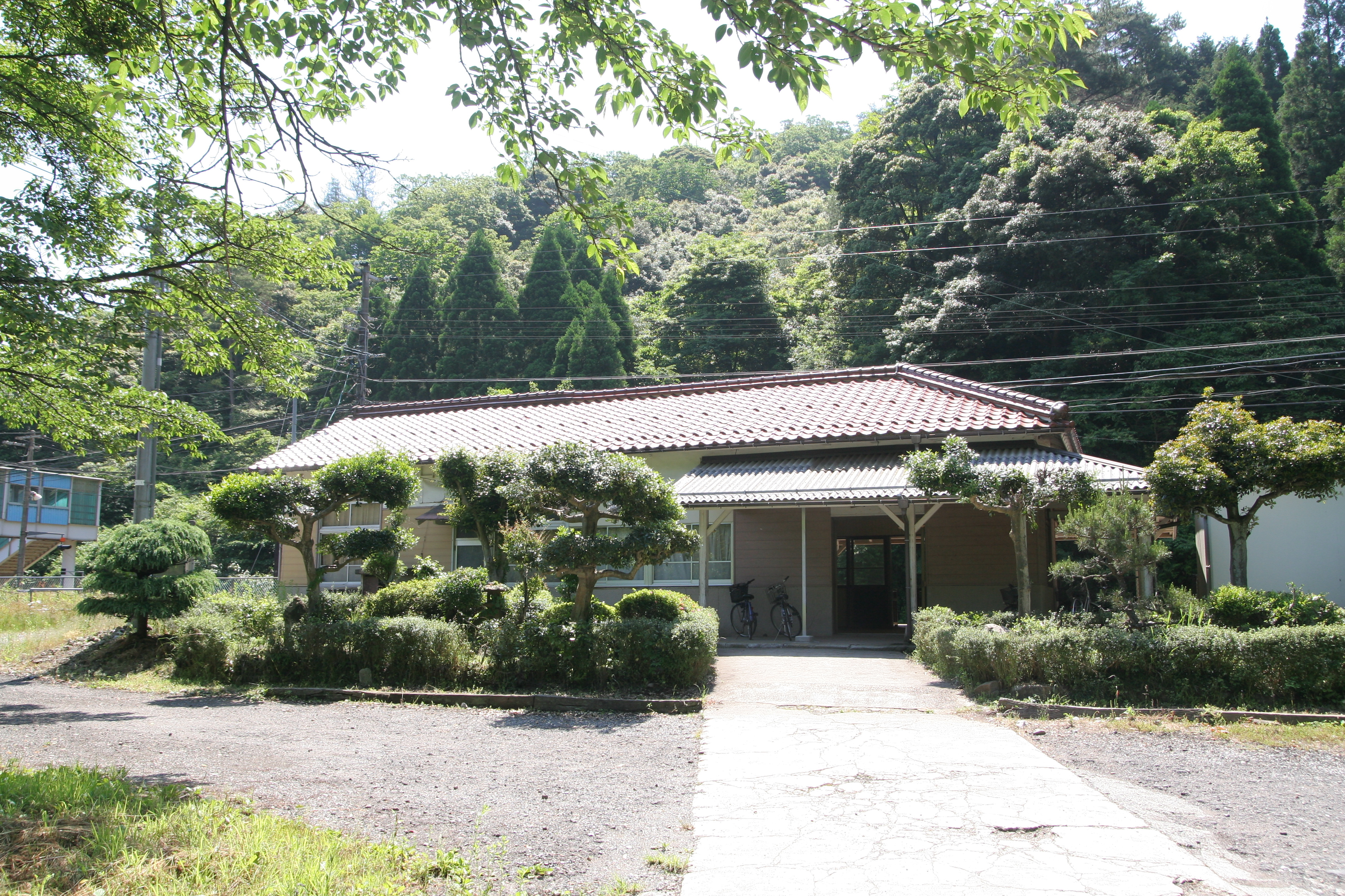 West Japan Railway Company San'in Main Line, Igumi Station.